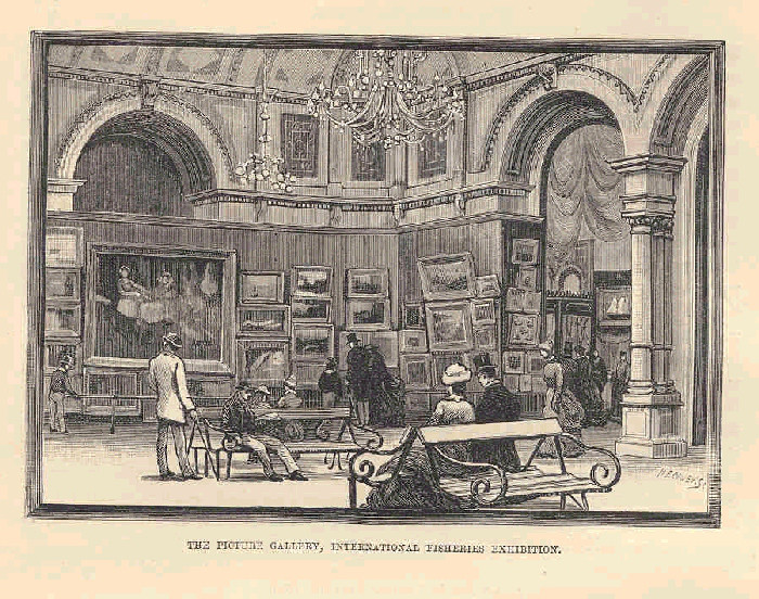 Picture Gallery, International Fisheries Exhibition Subject: International Fisheries Exhibition (1883 : London, England)--Picture gallery, Art museums Geographic Subject: England--London Tag: Expositions